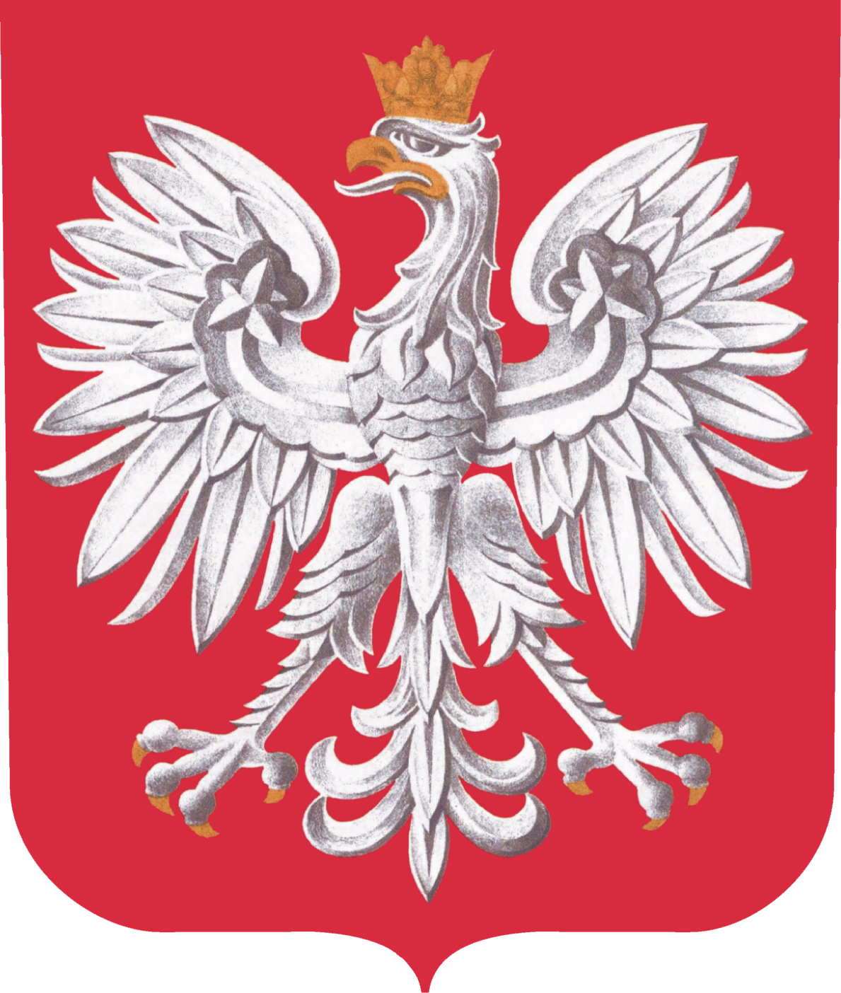 Coat of arms of the Republic of Poland